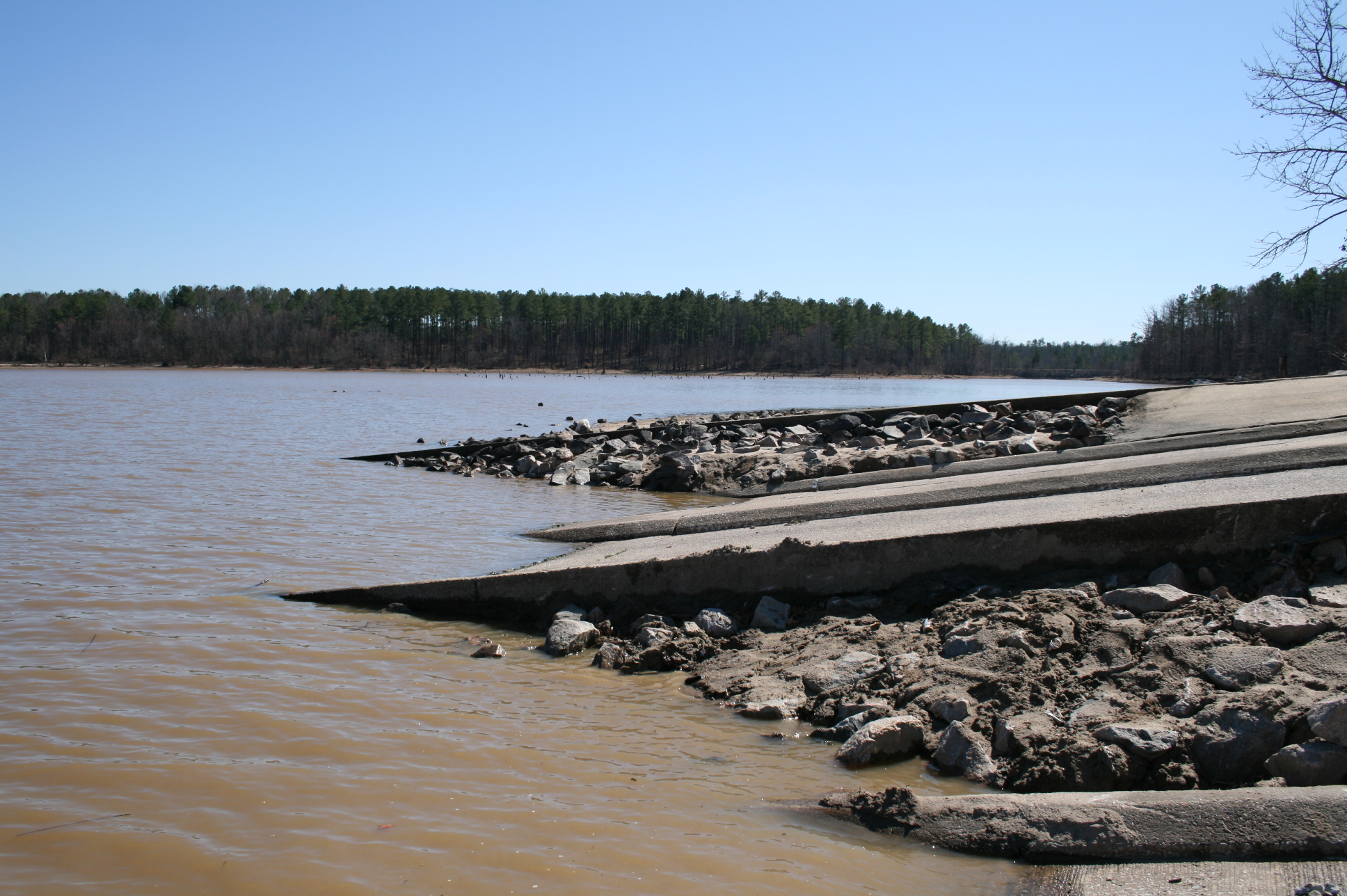 Boating access ramp at Falls Lake.